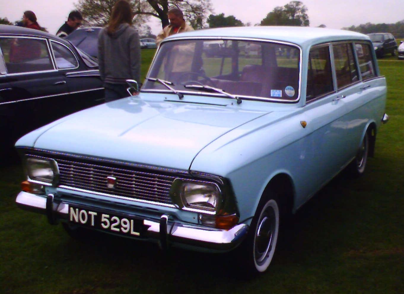 Moskvitch 427 5-door estate car. Photo by Asterion